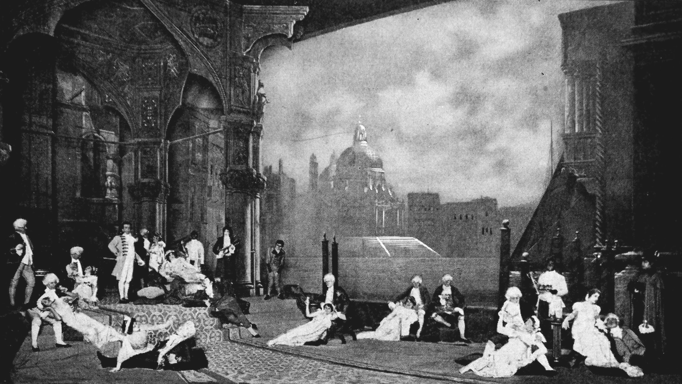 Offenbach - Les contes d'Hoffmann, act III - The Barcarolle - Photo White Title: The Victrola book of the opera : stories of one hundred and twenty operas with seven-hundred illustrations and descriptions of twelve-hundred Victor opera records Year: 1917 (1910s) Authors: Victor Talking Machine Company Rous, Samuel Holland Subjects: Operas Publisher: Camden, N.J. : Victor Talking Machine Co. Text Appearing Before Image: COPVT MISHKIN DALMORES AS HOFFMAN * Double-Faced Record—See page 476. 474 VICTROLA BOOK OF THE OPERA —TALES OF HOFFMAN Text Appearing After Image: PHOTO WHITE THE BARCAROLLE Barcarolle—Belle Nuit (Oh, Night of Love) By Geraldine Farrar and Antonio Scotti By Alma Gluck and Louise Homer By John McCormack and Fritz Kreisler By Maud Powell, Violinist By Victor Concert Orchestra By Lucy Marsh and Marguerite Dunlap By Mr. and Mrs. Wheeler By the Victor Orchestra By the Vienna Quartet (In French)(In French)(In English) 87502872028724564457*1731160096